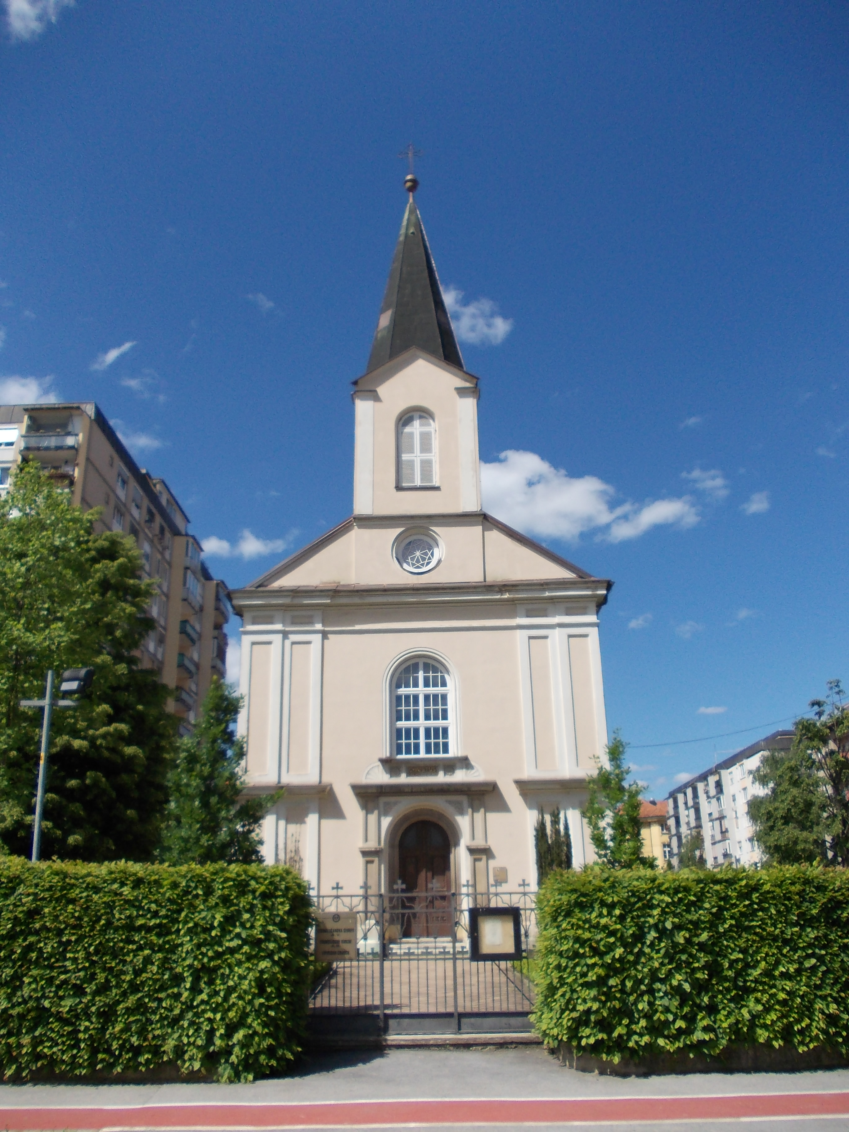 Lutheran Church, Maribor